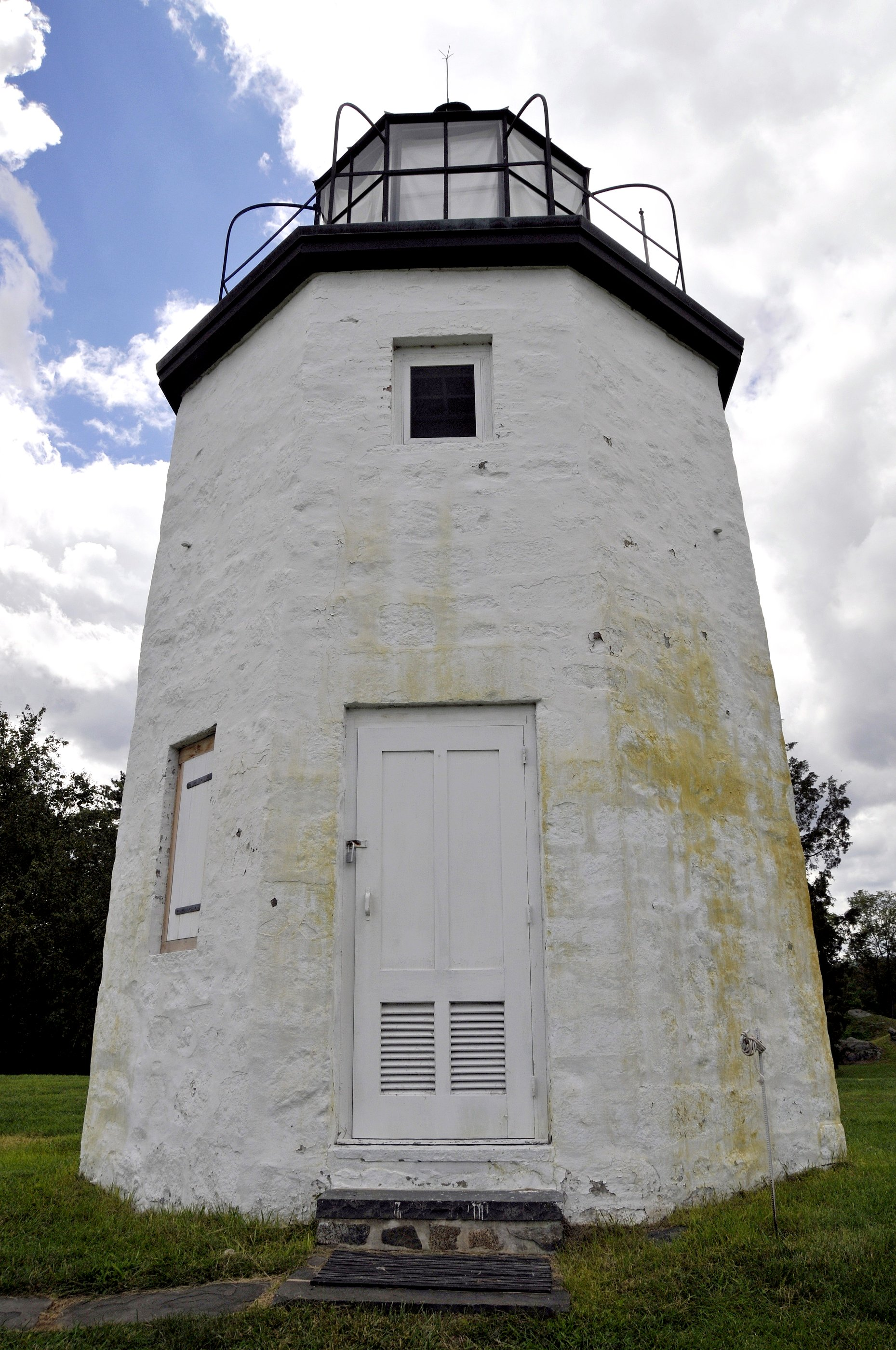 The Stony Point lighthouse was built in 1826, and is the oldest lighthouse on the Hudson River. In October, 1995, the lighthouse was restored, relighted, and re-opened to the public for the first time since 1925, when it was decommissioned after having served for nearly one hundred years. The lighthouse marked the danger to ships of a rocky promontory - Stony Point peninsula. Thomas Phillips of New York built the lighthouse (an octagonal pyramid made of blue split stone) - and a nearby keepers' house for $3350. source: Stony Point Lighthouse